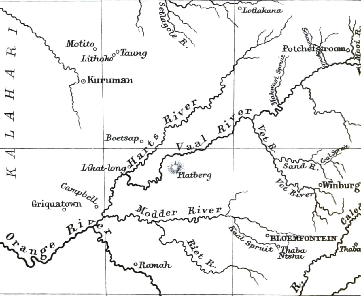 View this map on the BL Georeferencer service. Image taken from: Title: "History of the Boers in South Africa ... with three maps" Author: THEAL, George McCall. Shelfmark: "British Library HMNTS 9061.eee.18." Page: 10 Place of Publishing: London Date of Publishing: 1887 Publisher: Sonnenschein & Co. Issuance: monographic Identifier: 003607007 Explore: Find this item in the British Library catalogue, 'Explore'. Download the PDF for this book (volume: 0) Image found on book scan 10 (NB not necessarily a page number) Download the OCR-derived text for this volume: (plain text) or (json) Click here to see all the illustrations in this book and click here to browse other illustrations published in books in the same year. Order a higher quality version from here. This file is from the Mechanical Curator collection, a set of over 1 million images scanned from out-of-copyright books and released to Flickr Commons by the British Library. Please add the Flickr page URL for the image Please add the British Library system number for the book This tag does not indicate the copyright status of the attached work. A normal copyright tag is still required. See Commons:Licensing.